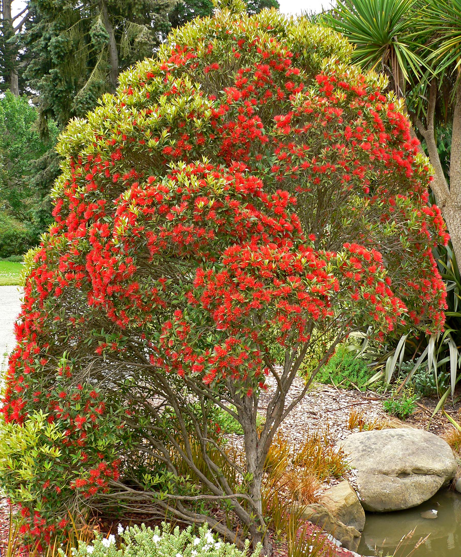 Photo of Metrosideros umbellata at the San Francisco Botanical Garden